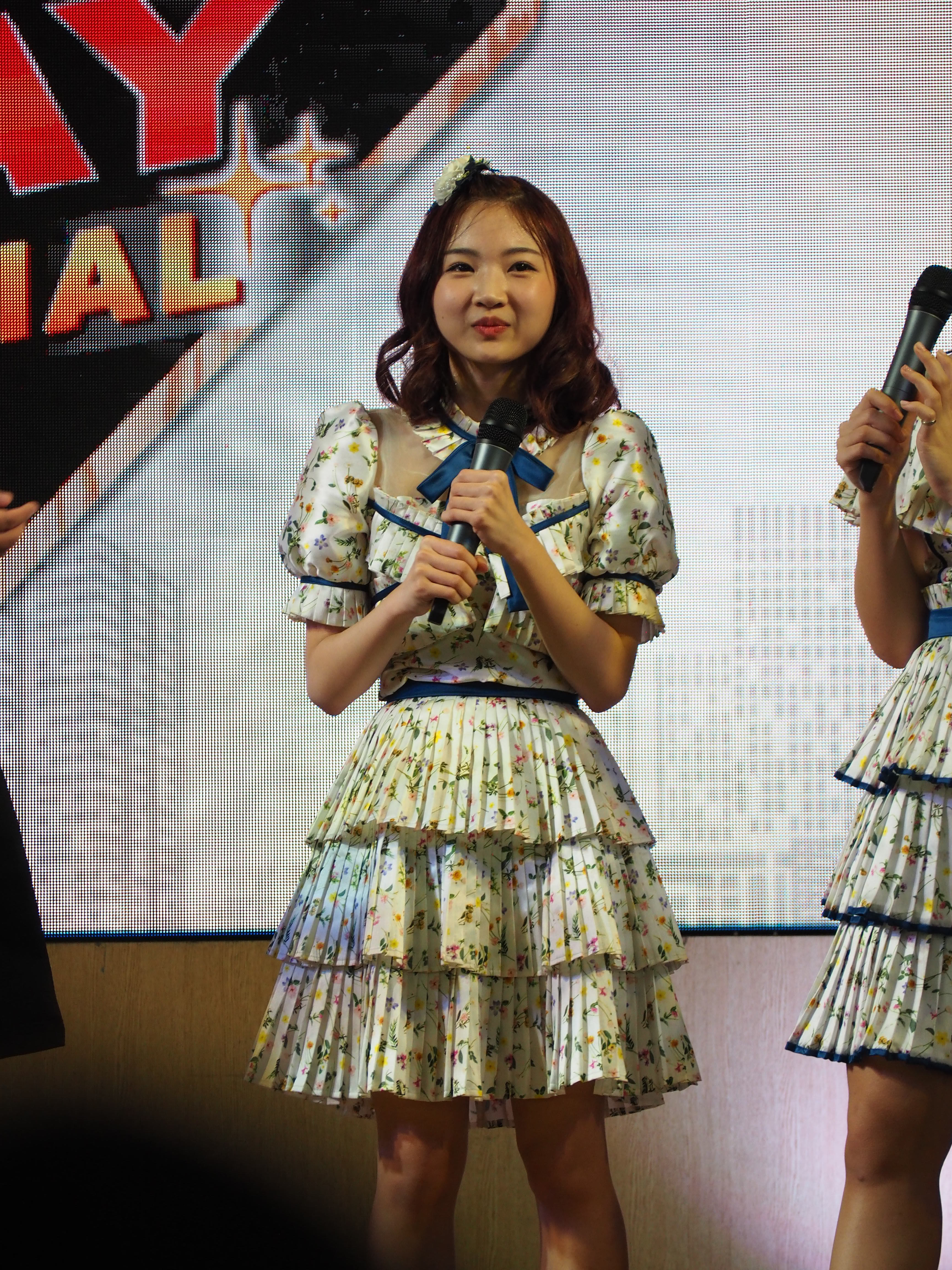 Kaimook BNK48 (Warattaya Deesomlert) @Toyota Big Day Special in Central Plaza Khon Kaen, Khon Kaen, Thailand.